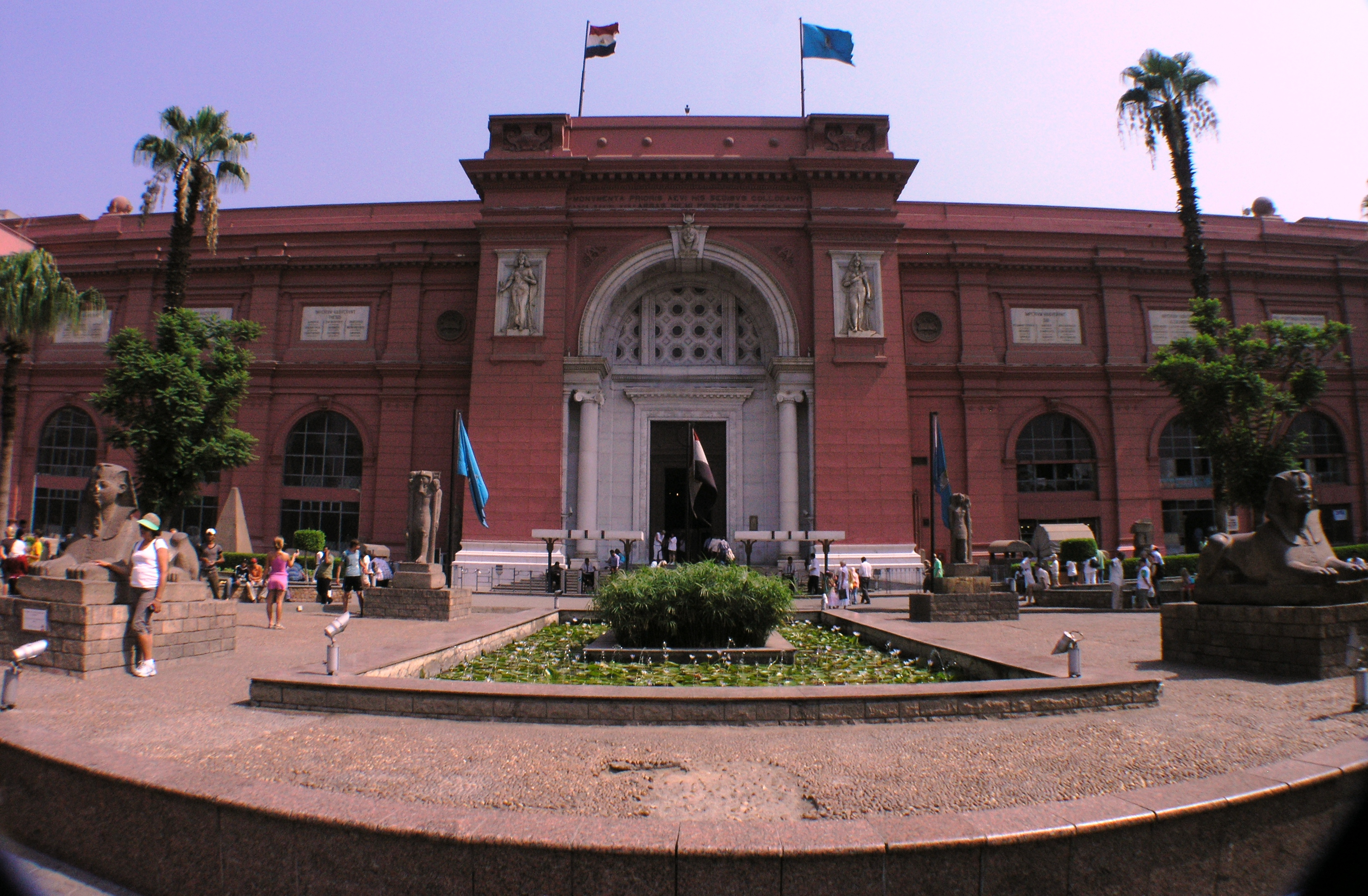 Egyptian Museum - front view with wide angle lens